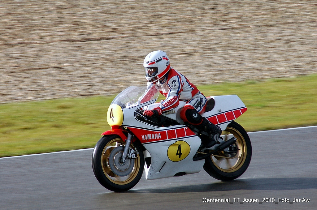 Steve Baker on a Yamaha OW45 at the 2010 Centennial Classic TT at Assen.